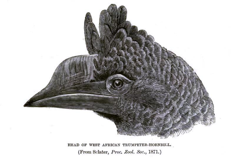 Trumpeter Hornbill Ceratogymna bucinator Syn. Bycanistes bucinator